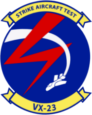 Emblem of the U.S. Navy Air Test and Evaluation Squadron 23 (VX-23).